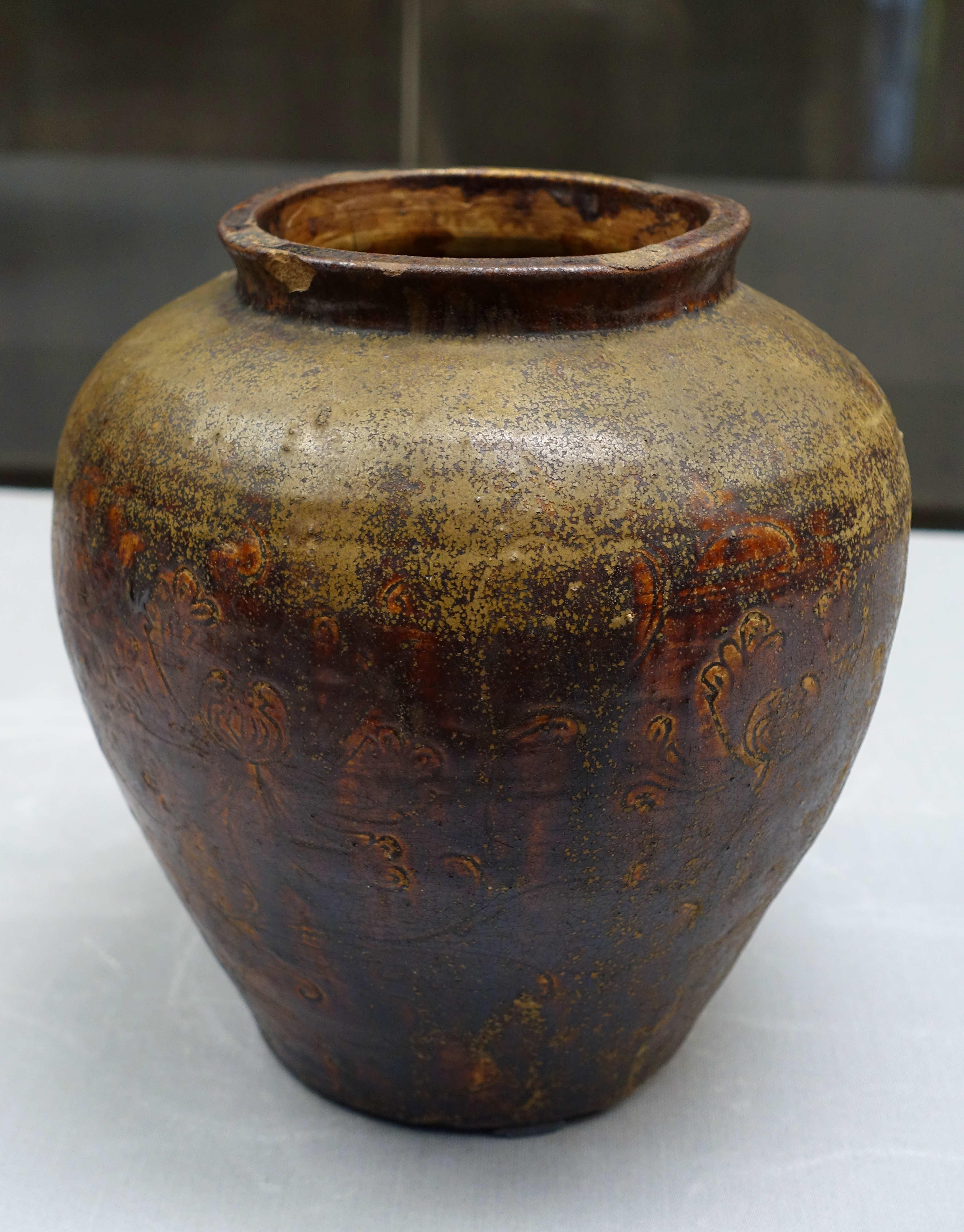 Exhibit in the Tokyo National Museum, Tokyo, Japan. This work is old enough so that it is in the public domain.